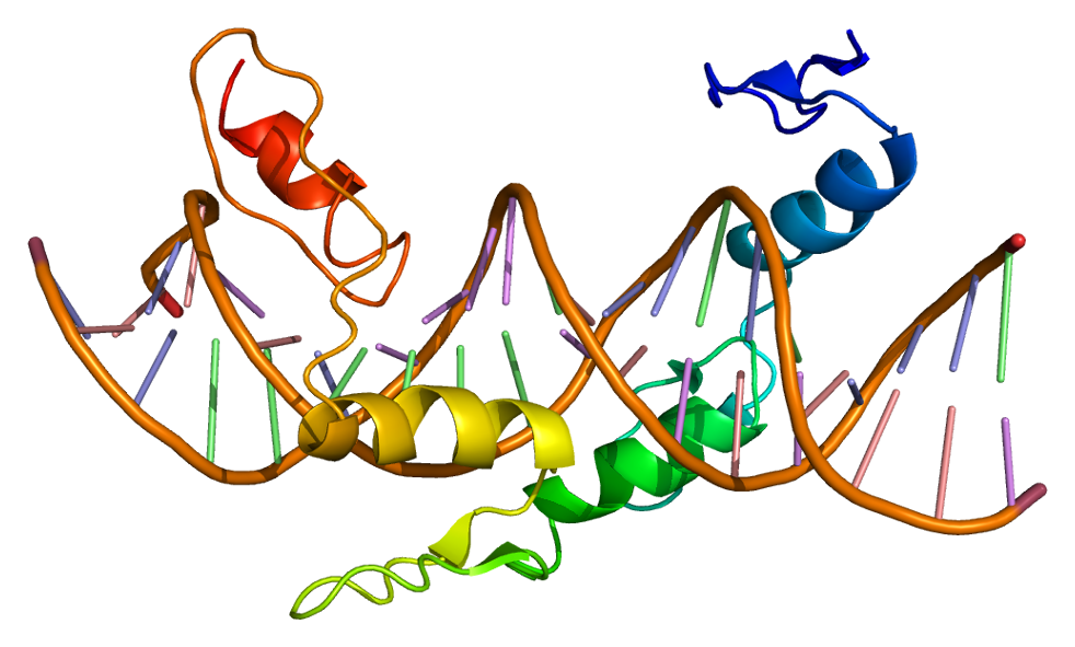 Structure of the YY1 protein. Based on PyMOL rendering of PDB 1ubd.